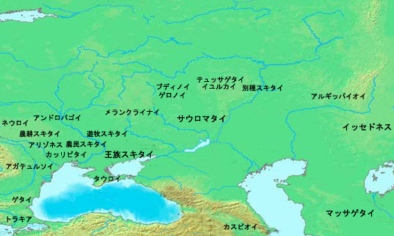 This is a map of Scythians in the 6th century BC.